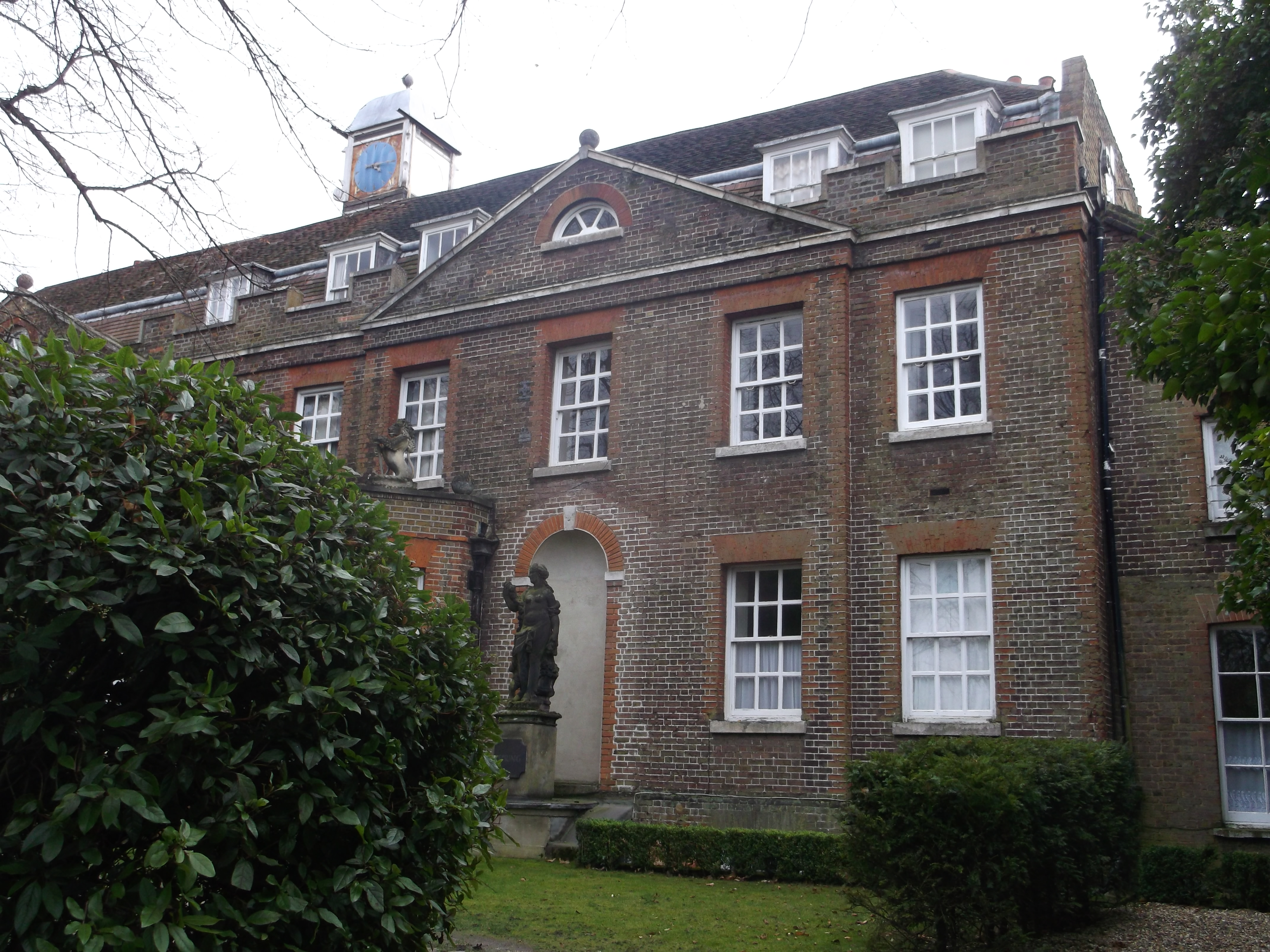 Southside House, Wimbledon, a Grade II* listed mansion in England.